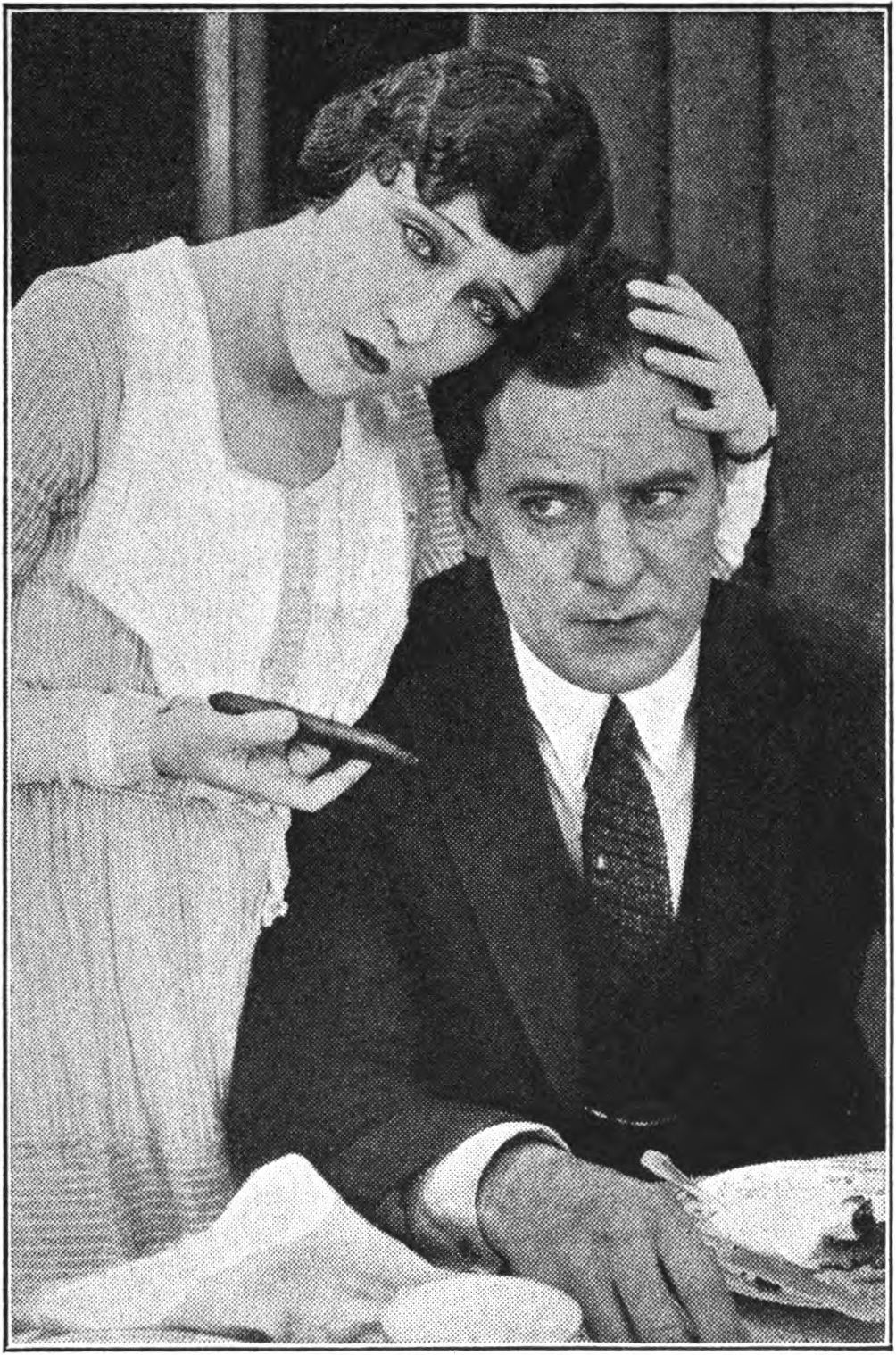 Photograph of Gloria Swanson and Thomas Meighan from the "Screen Acting" (1921) book. Description under the image in the "Screen Acting" book: "A pair excellent in its screenic balance—Gloria Swanson and Thomas Meighan". Title at the "Illustrations" page (page XIII): "Gloria Swanson and Thomas Meighan".